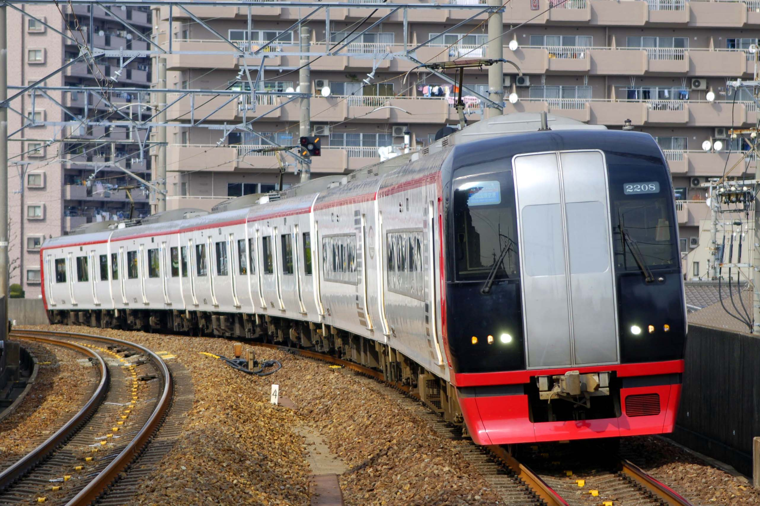 Nagoya Railway type 2200 electric car. 名古屋鉄道2200系。豊田本町にて。